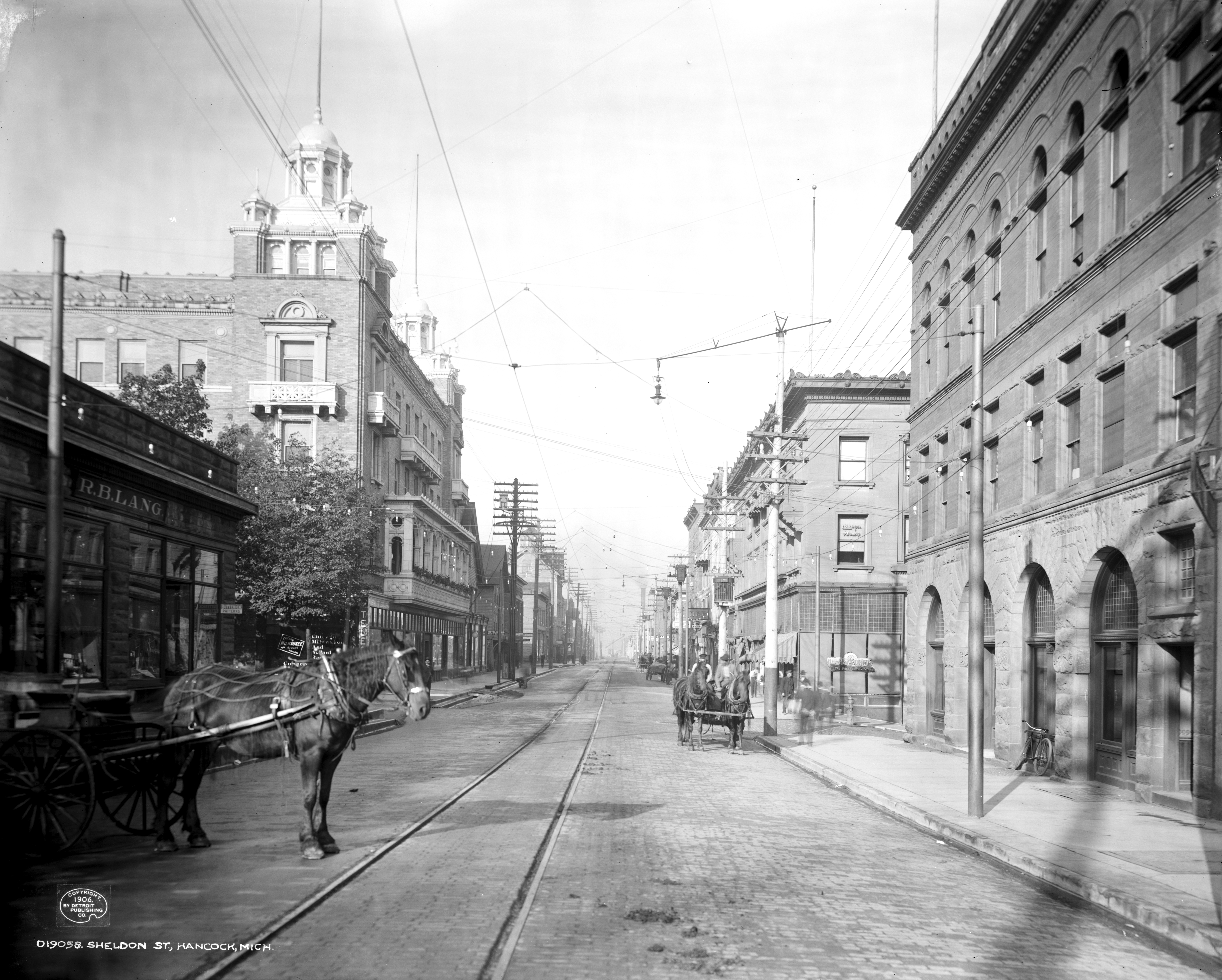 Looking east down Shelden Avenue in Houghton, Michigan c1906